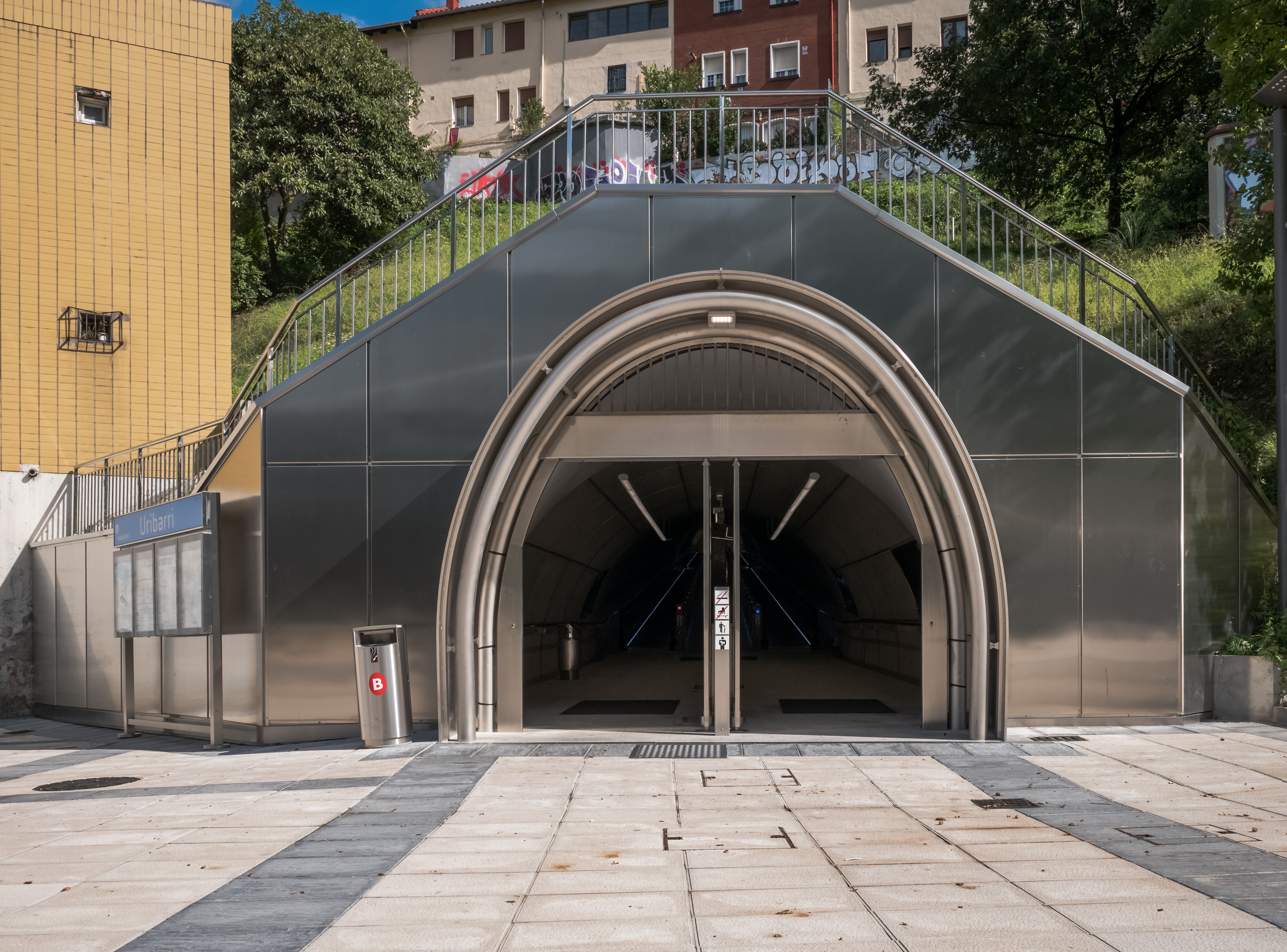 Access to the Metro Bilbao and Euskotren station of Uribarri. Bilbao, Biscay, Basque Country, Spain